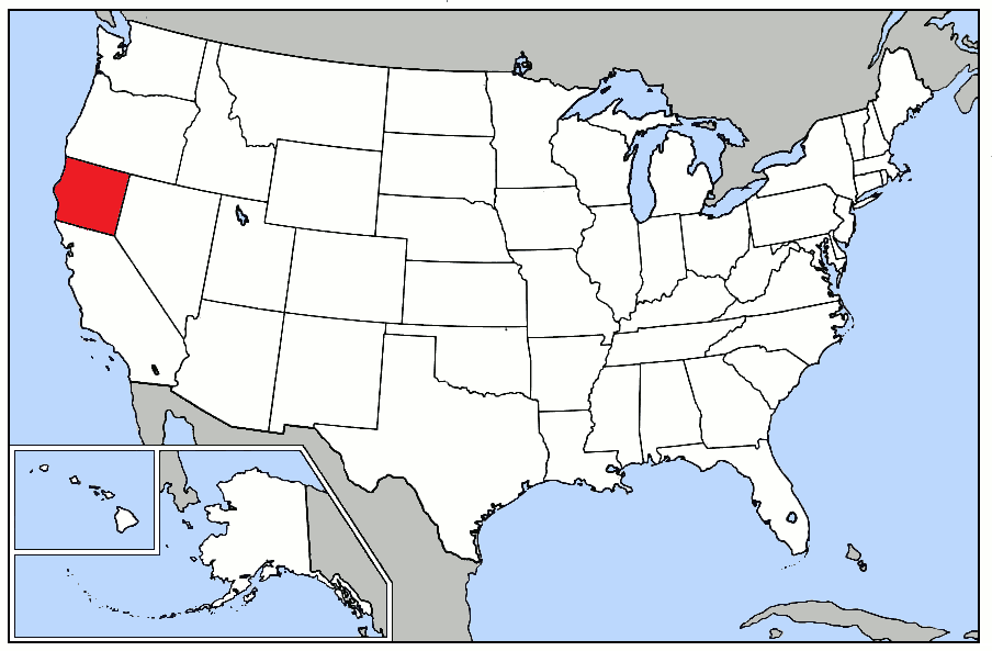 The approximate location of Calisota, a fictional state of United States where Donald Duck & co. live, according to Don Rosa (cf. the first page of "The Invader of Fort Duckburg"). In real life the northern third of California.